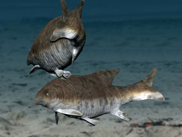 Scheenstia maximus (formerly Lepidotes)